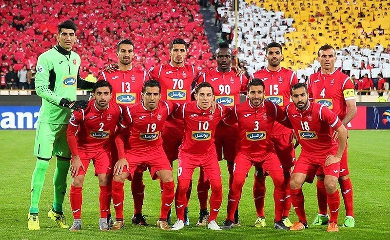 FC Persepolis in ACL 2018. Azadi Stadium (Tehran)